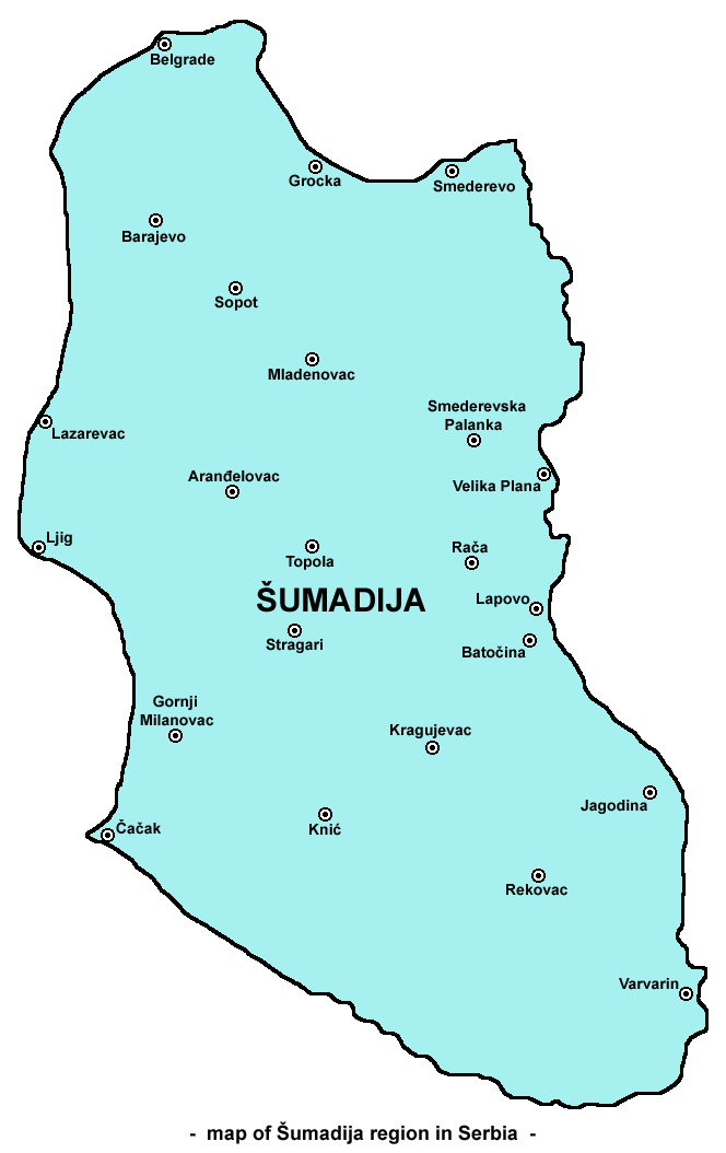 Map of Šumadija region in Serbia.Serbian: Мапа Шумадије у Србији.